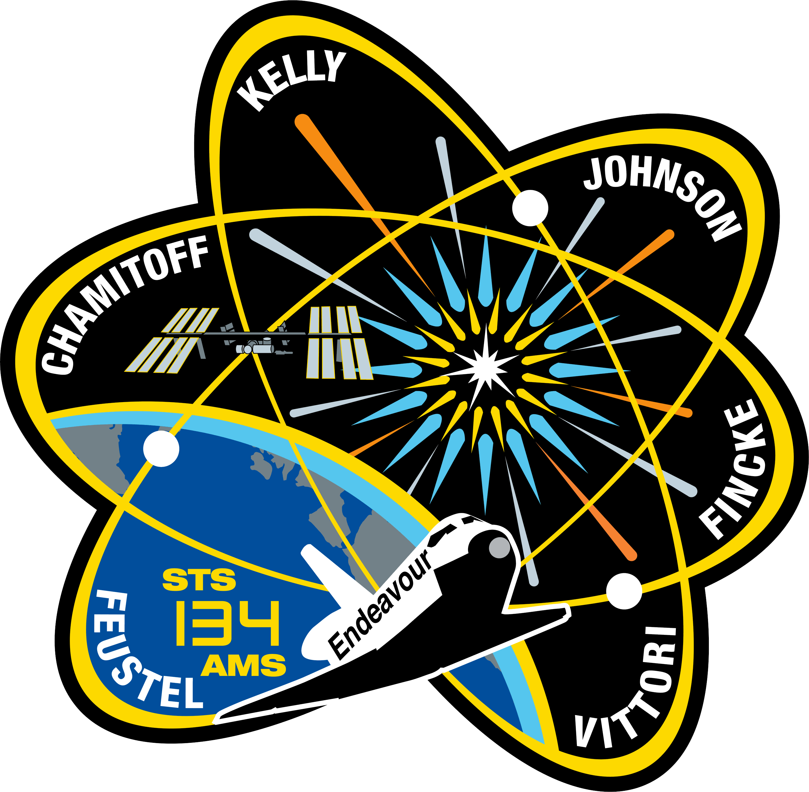 The design of the STS-134 crew patch highlights research on the International Space Station (ISS) focusing on the fundamental physics of the universe. On this mission, the crew of Space Shuttle Endeavour will install the Alpha Magnetic Spectrometer (AMS) experiment - a cosmic particle detector that utilizes the first ever superconducting magnet to be flown in space. By studying sub-atomic particles in the background cosmic radiation, and searching for anti-matter and dark-matter, it will help scientists better understand the evolution and properties of our universe. The shape of the patch is inspired by the international atomic symbol, and represents the atom with orbiting electrons around the nucleus. The burst near the center refers to the big-bang theory and the origin of the universe. The Space Shuttle Endeavour and ISS fly together into the sunrise over the limb of Earth, representing the dawn of a new age, understanding the nature of the universe.